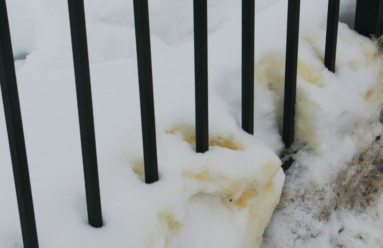 Yellow snow